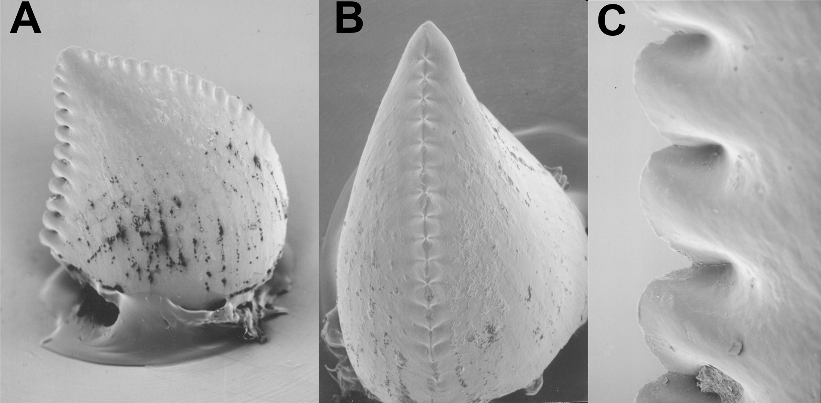 Tooth of Koparion in “side” (A) and mesial (B) views, and a detail of the distal serrations (C). Association of skeletal elements assembled from 3D scans of specimen blocks prior to final mechanical preparation. Scale bar = 6 cm. Scale bar = 25 cm.